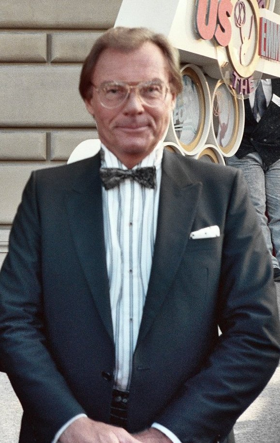 Photo of Adam West, taken at the 41st Emmy Awards 9/17/89 - Adam West and me (Alan Light) - Permission granted to copy, publish or post but please credit "photo by Alan Light" if you can